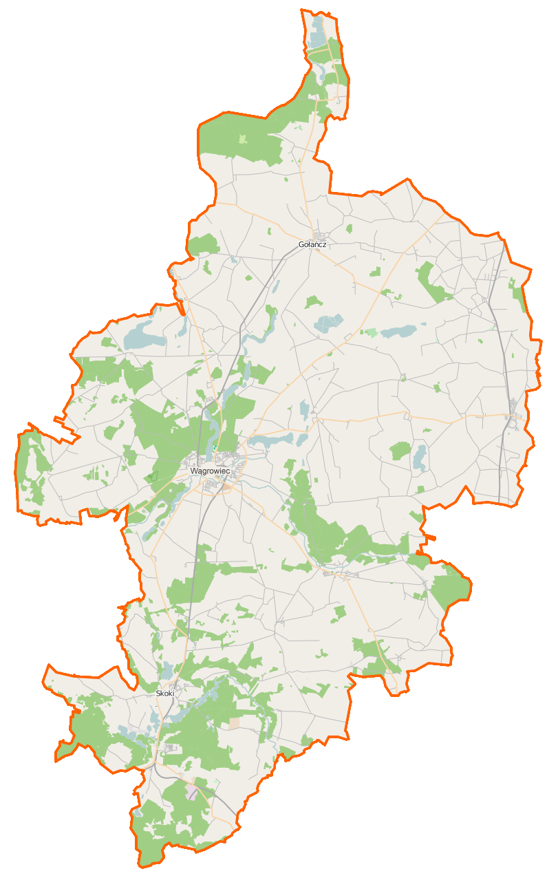 Map of Powiat wągrowiecki, Poland This map of Powiat wągrowiecki was created from OpenStreetMap project data, collected by the community. This map may be incomplete, and may contain errors. Don't rely solely on it for navigation. Border coordinates53.089516.9890←↕→17.545052.5588